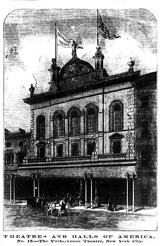 The Fifth Avenue Theatre, New York City. Engraved illustration published in The New York Clipper, October 17, 1874.